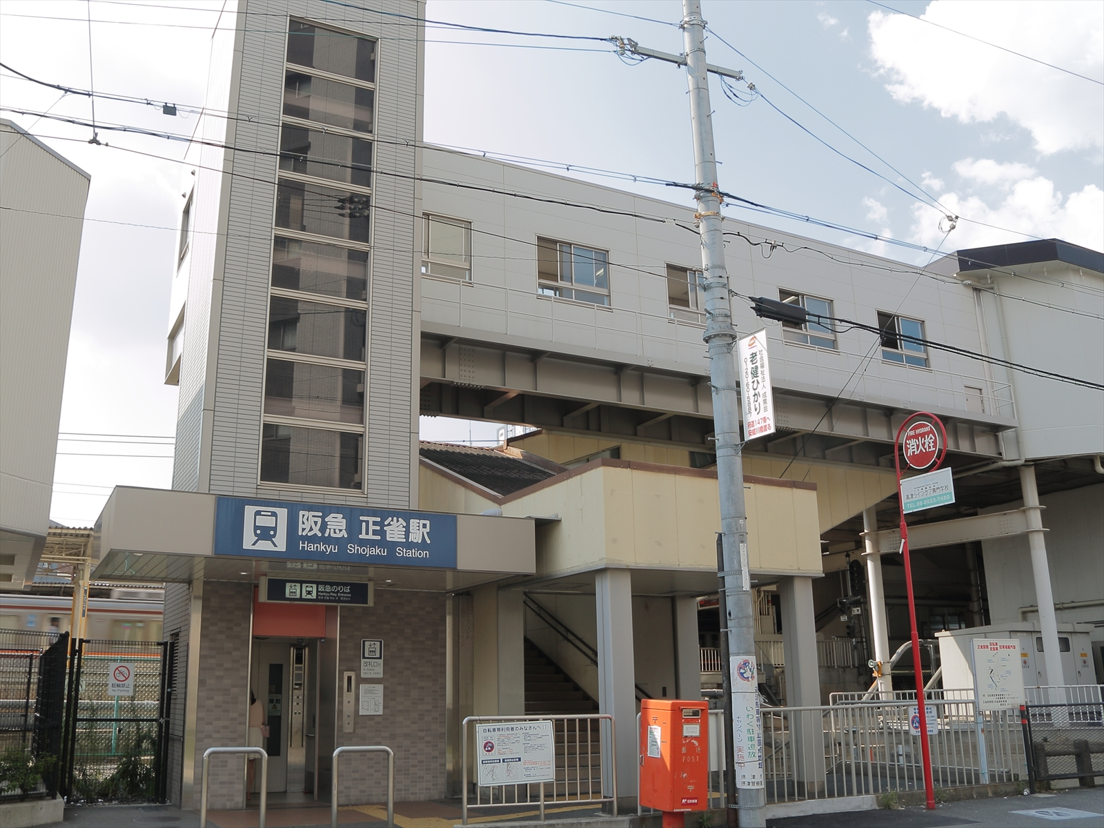 South Entrance from Shōjaku Station.